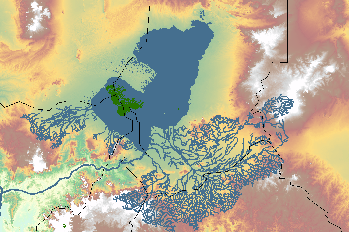 The previous extension of the Mega-Chad